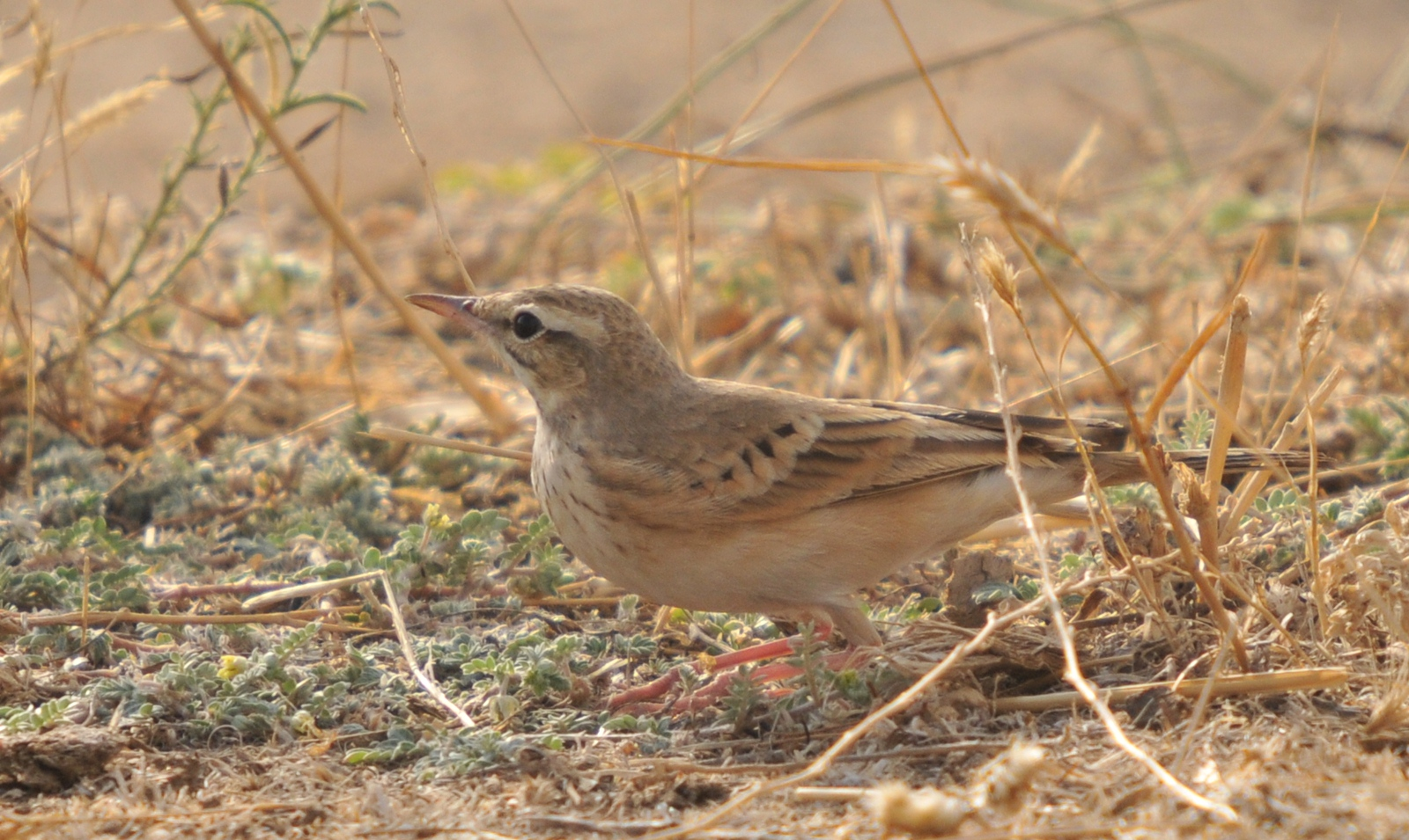 Tawny pipit at Kaniya / Kaniua village in southeastern Turkey